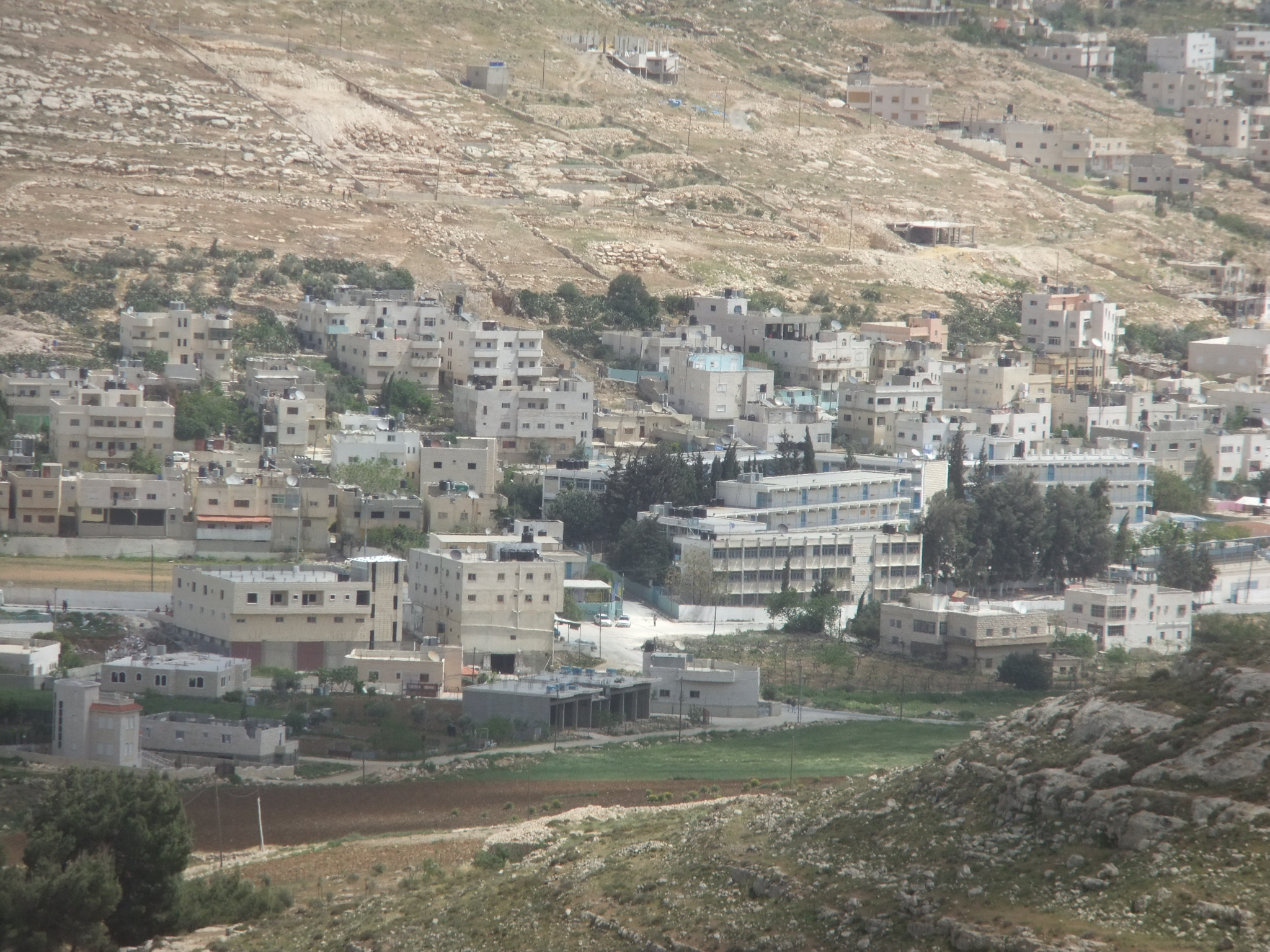 Fawwar, Hebron